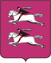 Dyadkovskoe (Krasnodar krai), coat of arms